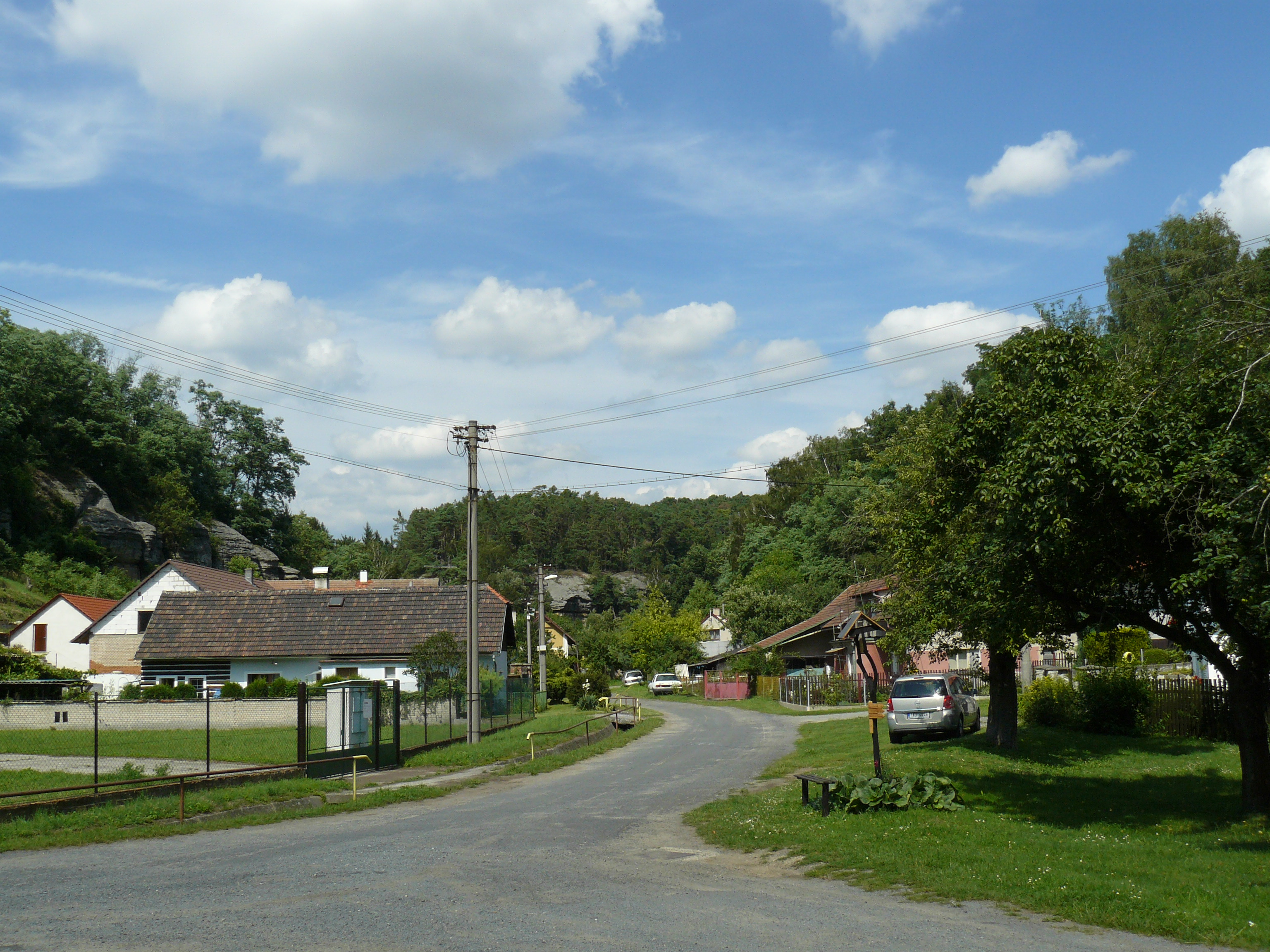 Lhotka (Melnik district) - village in Czech Republic